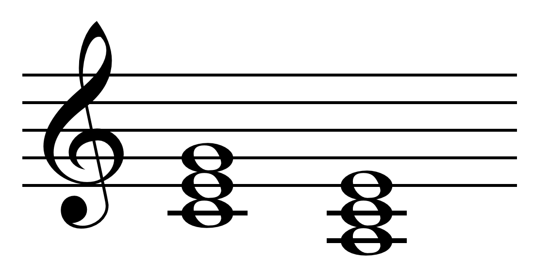 Tonic parallel in C major. Created by Hyacinth (talk) 04:07, 1 May 2010 using Sibelius 5. See also: Image:Relative tonic chords on C and a.png